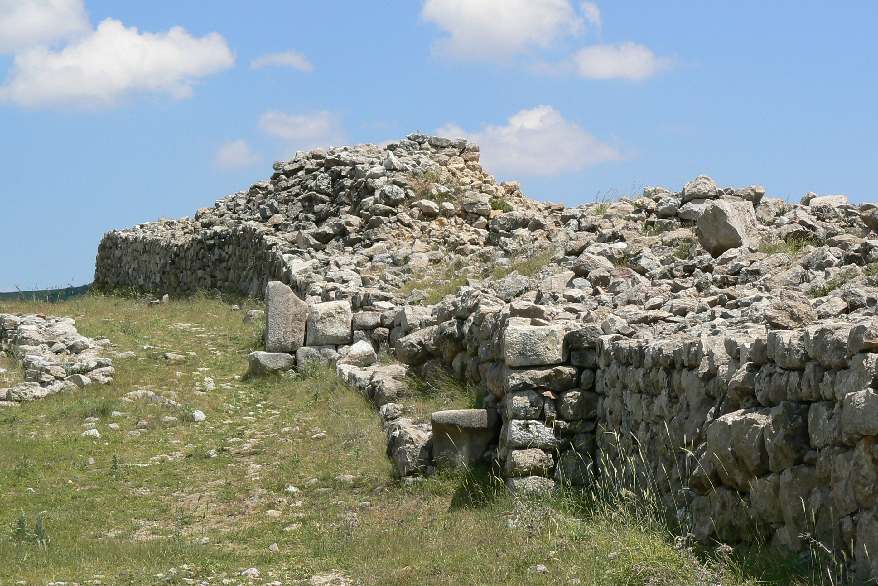 The ruins of the fortified wall of the Royal citadel on Büyükkale, Hattusa, Turkey